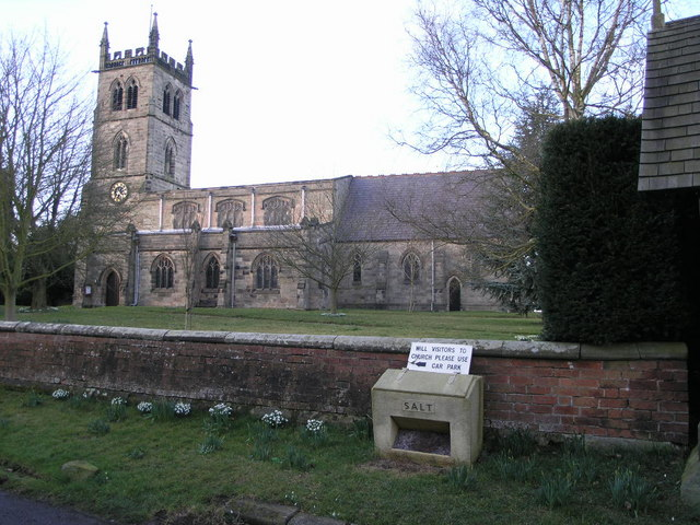 St Werburgh's parish church, Hanbury, Staffordshire, seen from the south